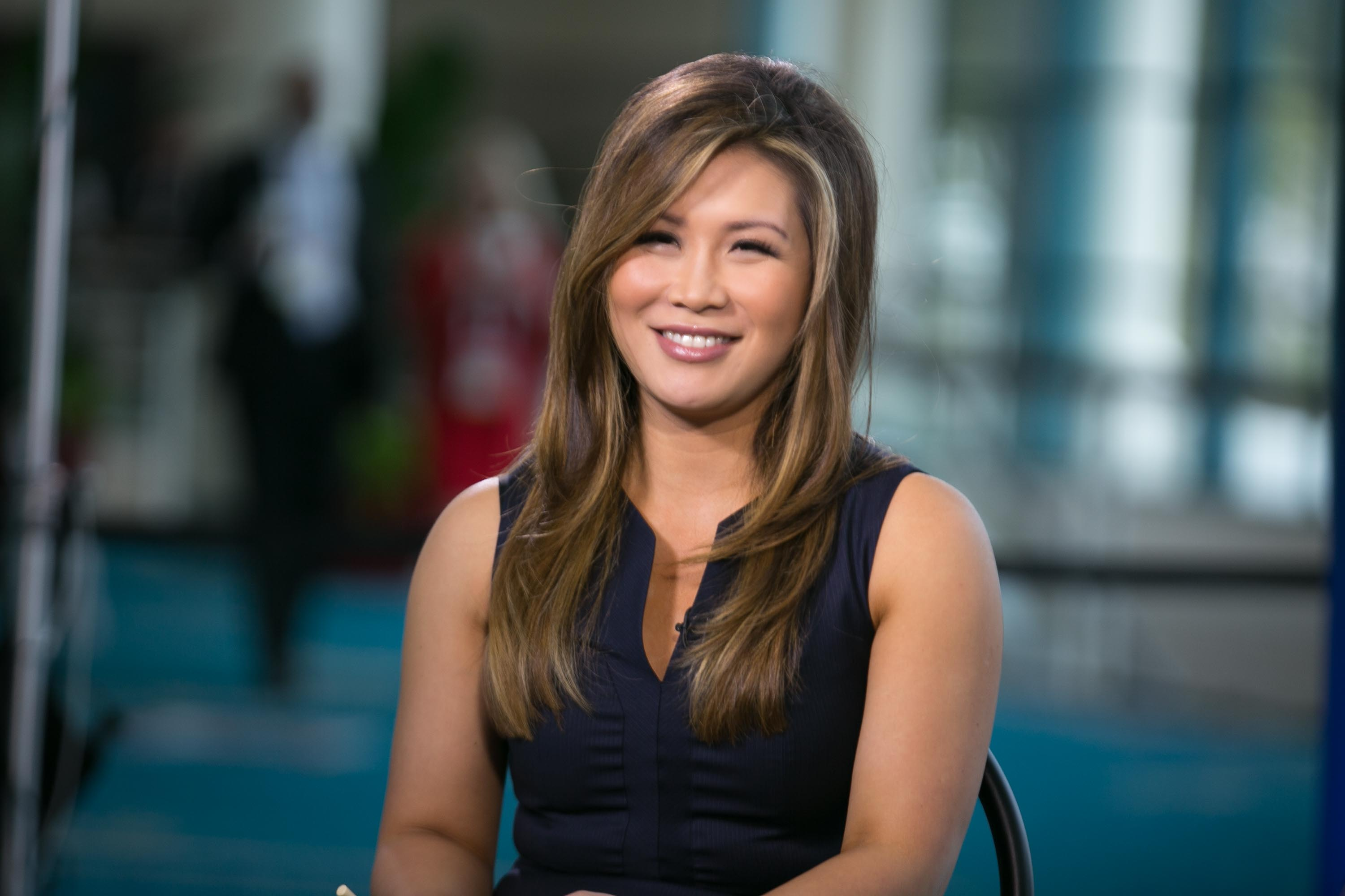 CNBC Reporter Susan Li